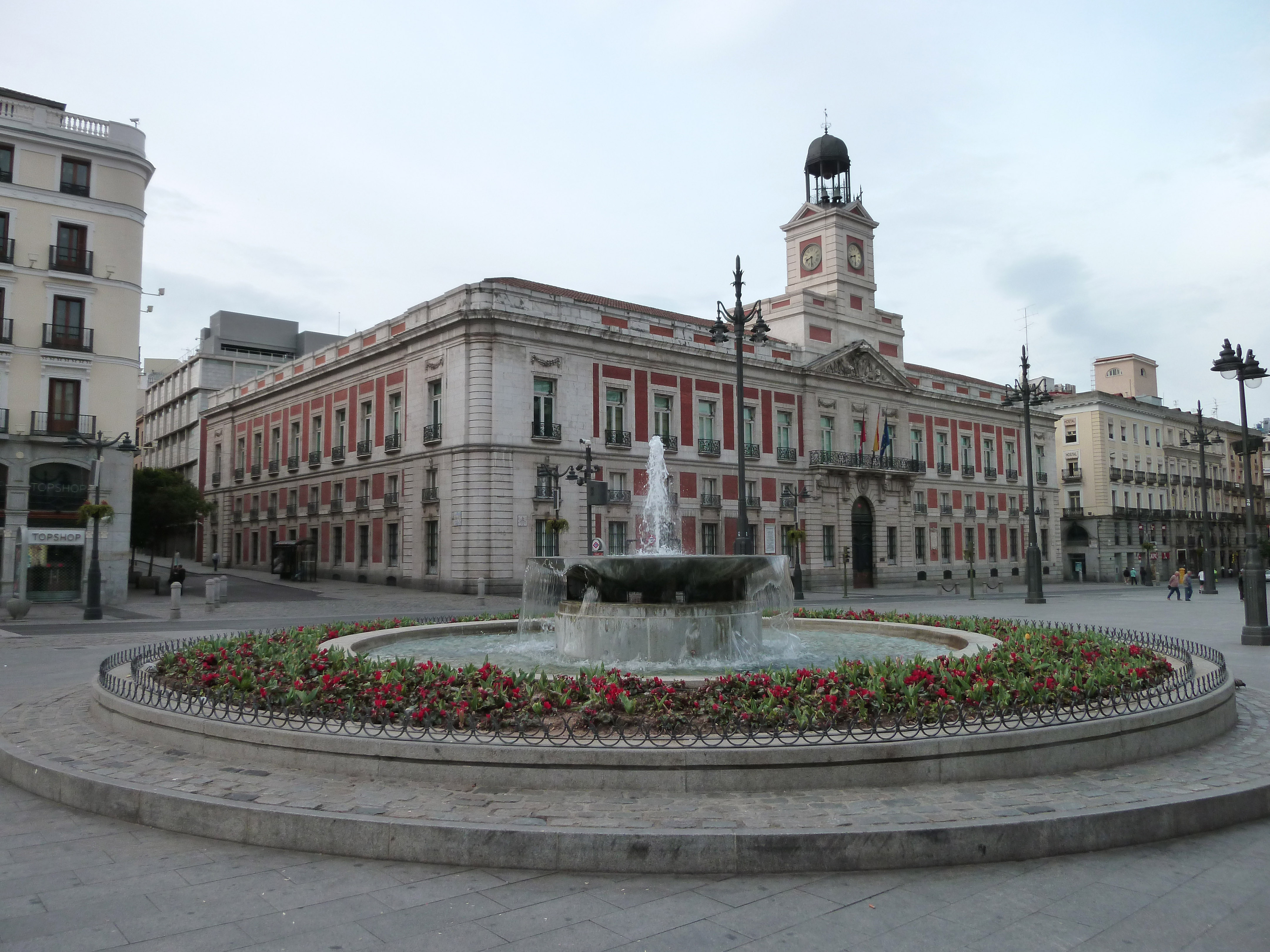 Partial view of Puerta del Sol (square) in Madrid (Spain). Background: Real Casa de Correos.